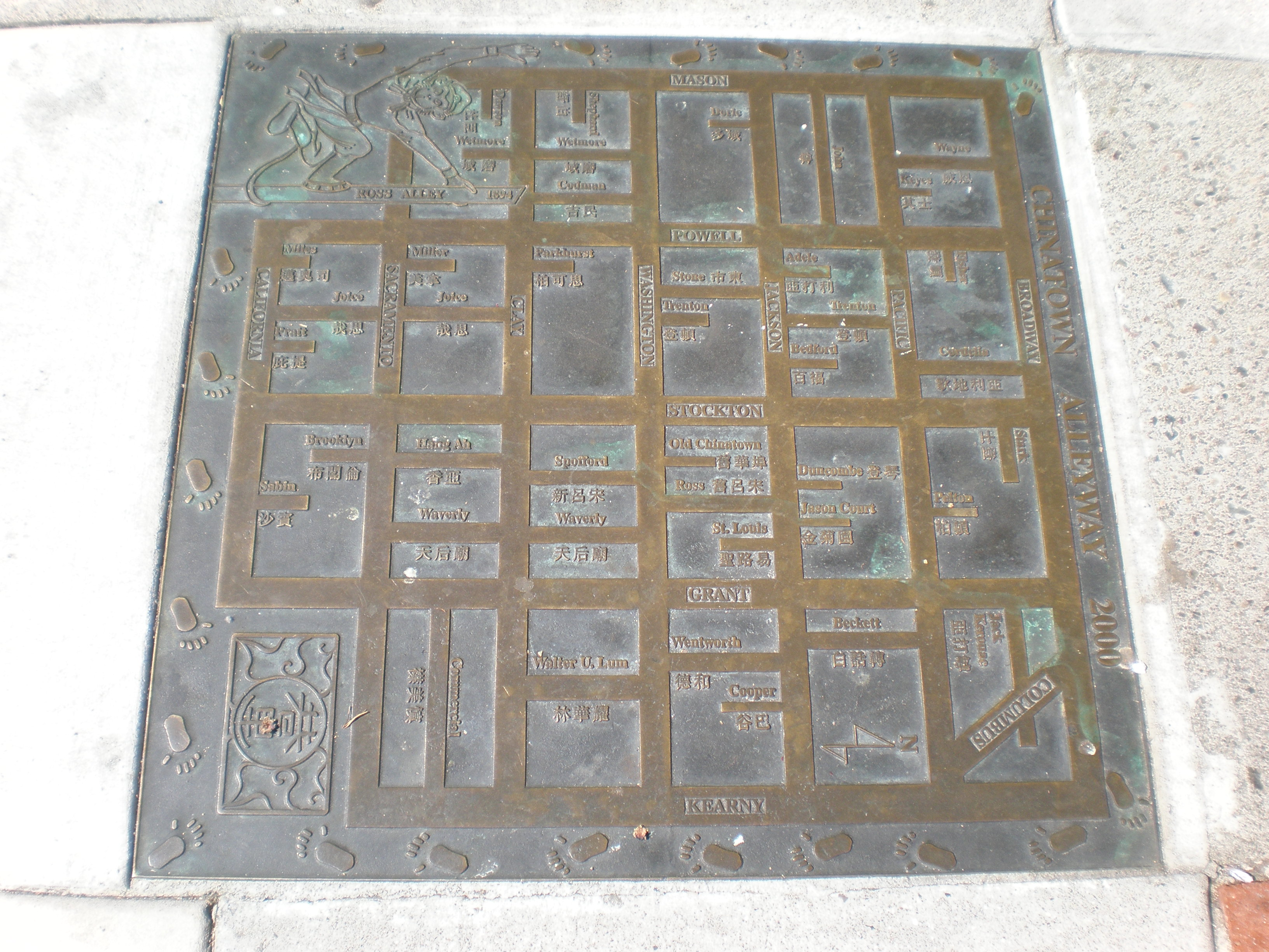 A Chinatown Alleyway 2000 plaque on Waverly Place in Chinatown, San Francisco.